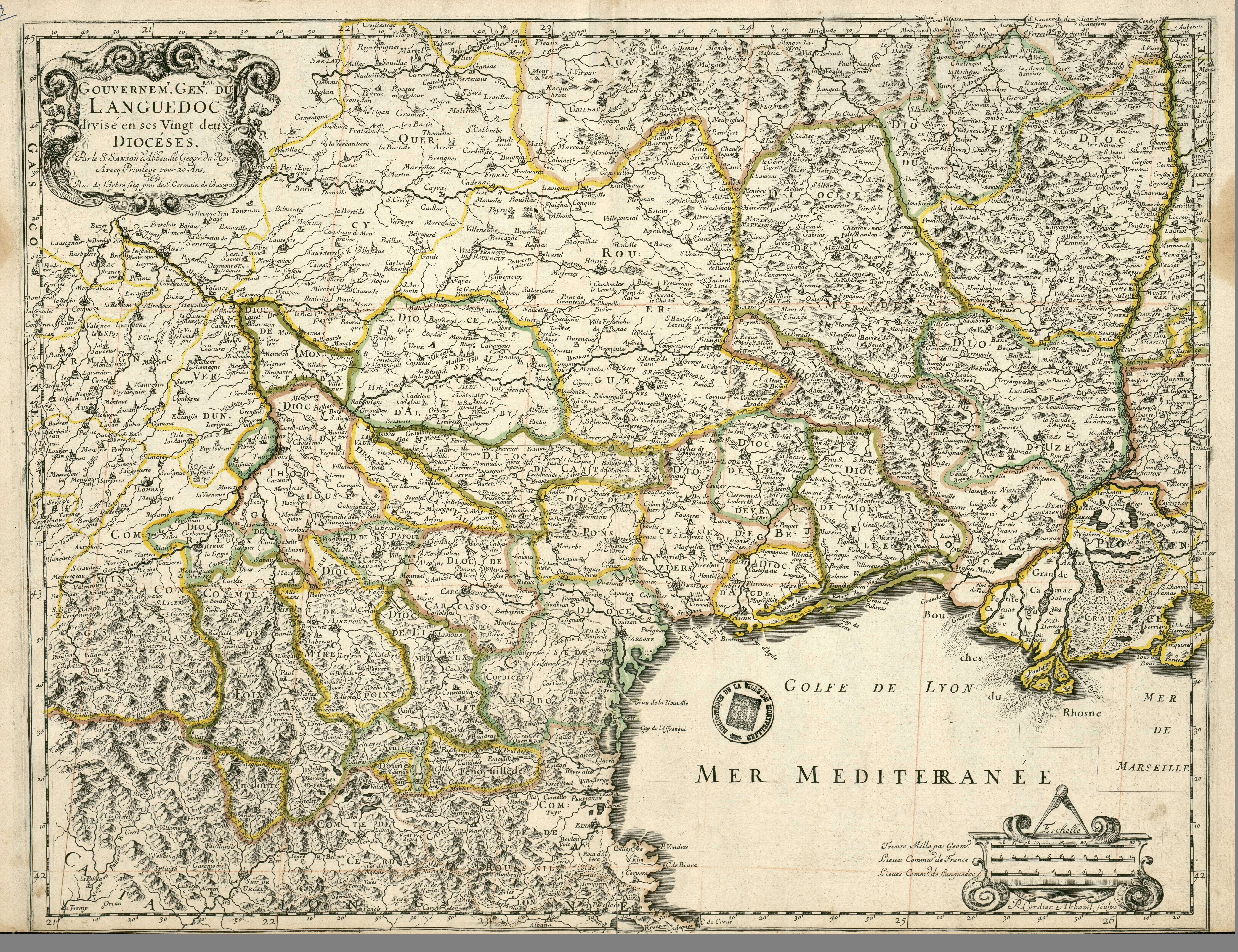 Map of the "Gouvernement général du Languedoc", engraved by Robert Cordier d'Abbeville, 1651, Paris.